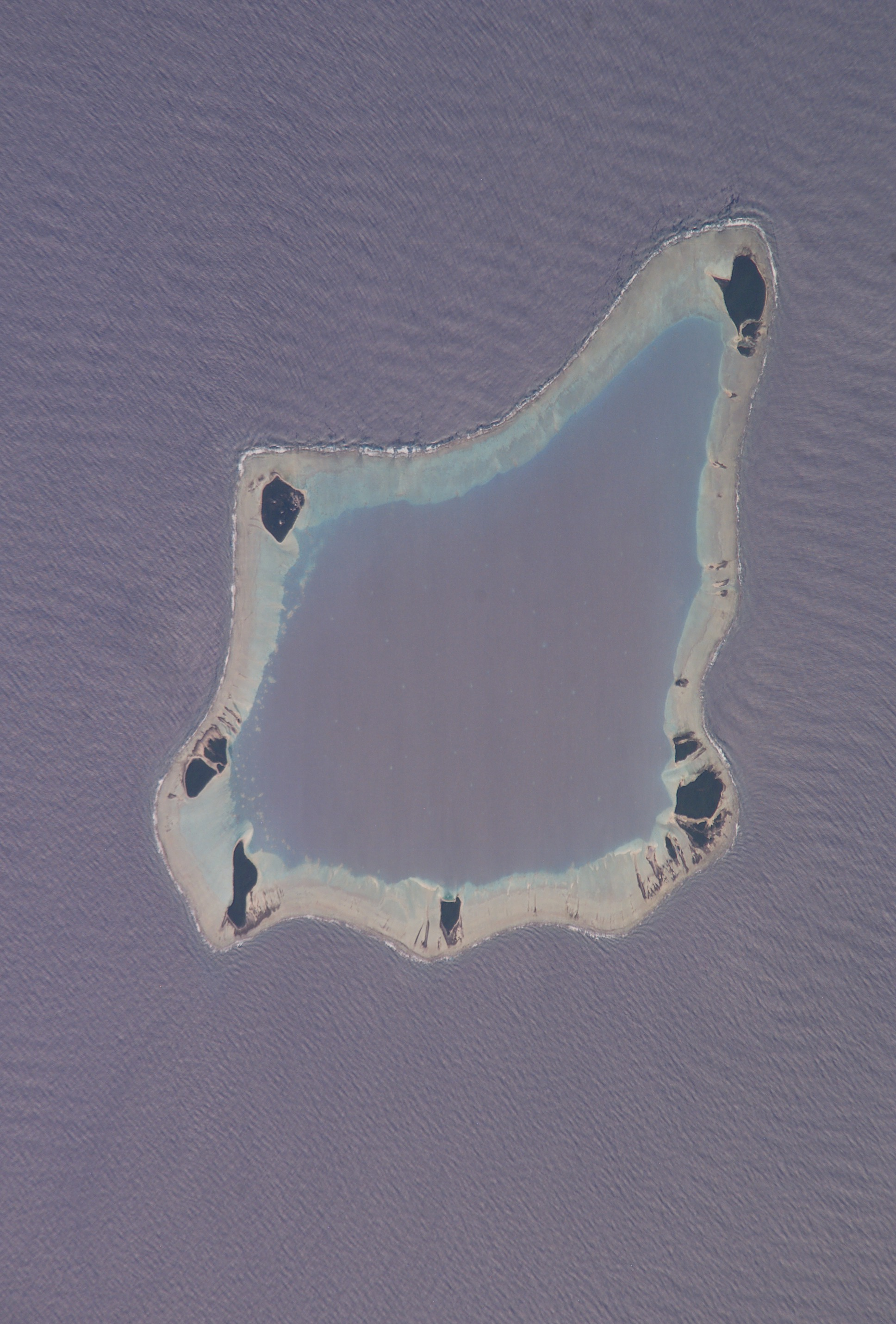 NASA astronaut image of Palmerston Islands (Cook Islands) in the Pacific Ocean